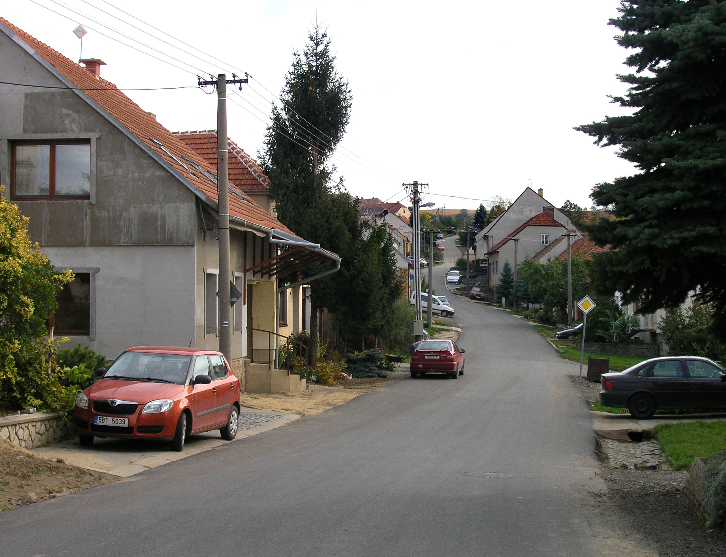 East part of Kobylí village, Czech Republic